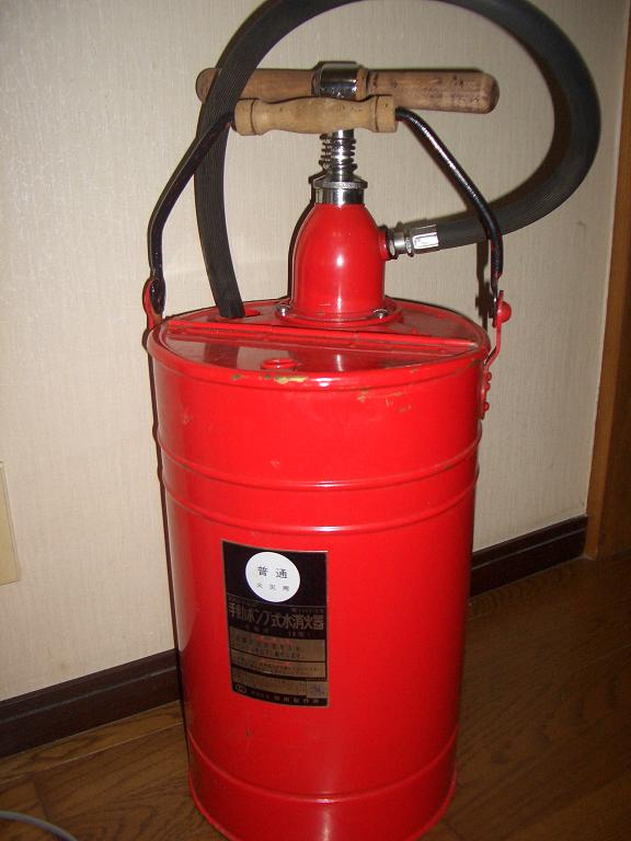 Japanese HATSUTA 4 Gal Water Pump fire extinguishers